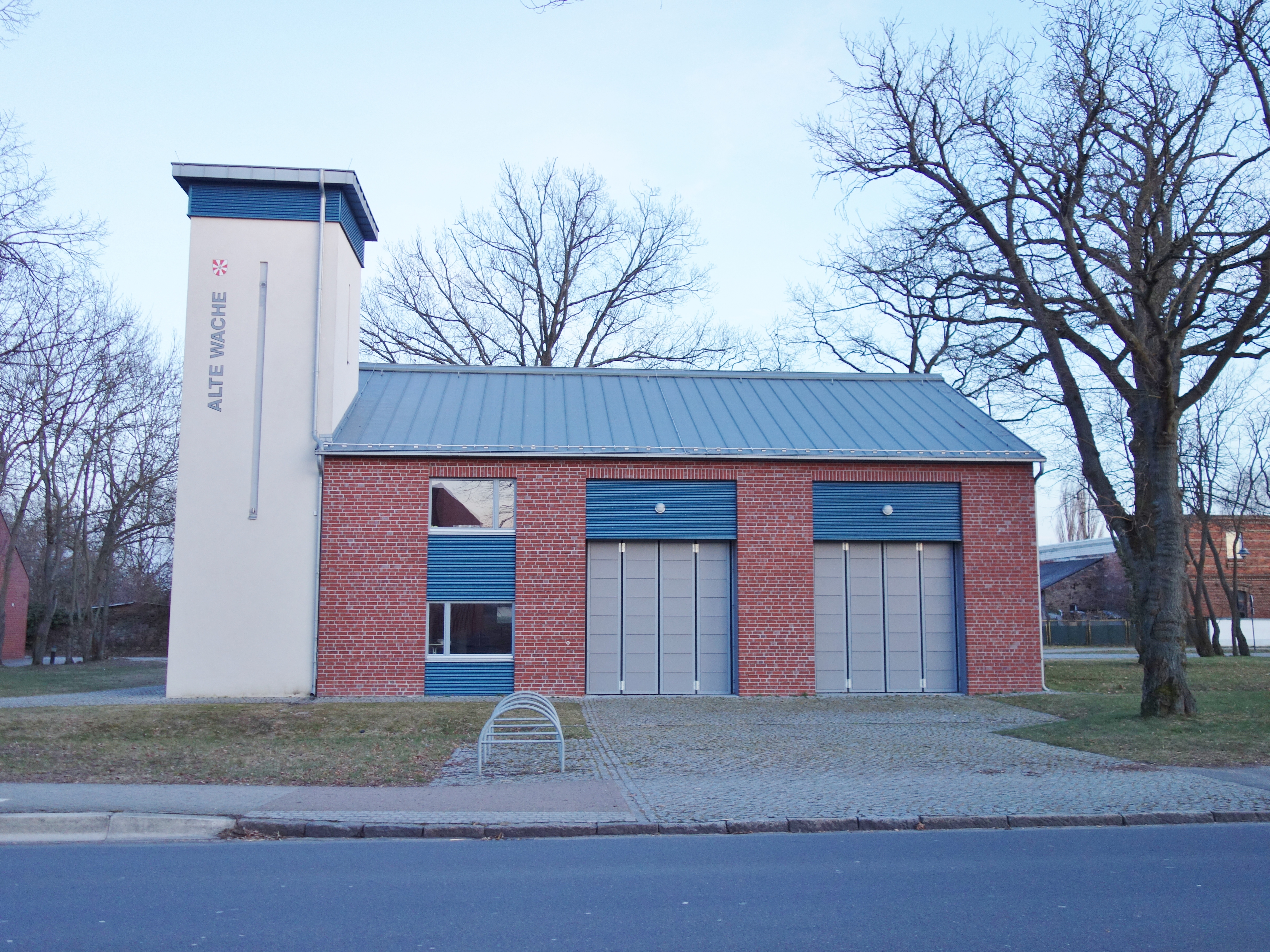 Northern view of the former fire station in Großziethen , Schönefeld municipality , Dahme-Spreewald district, Brandenburg state, Germany